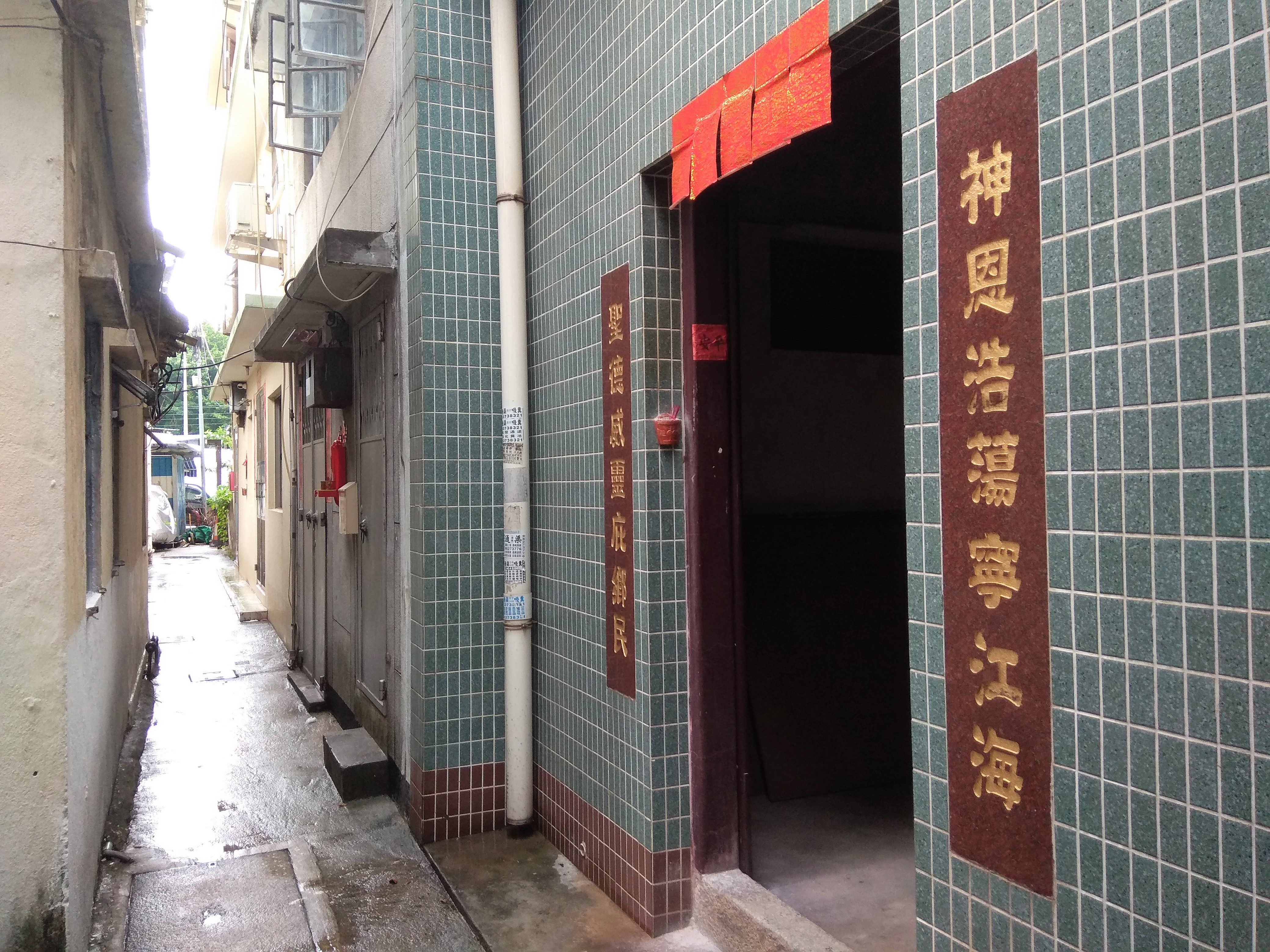 Shui Pin Wai